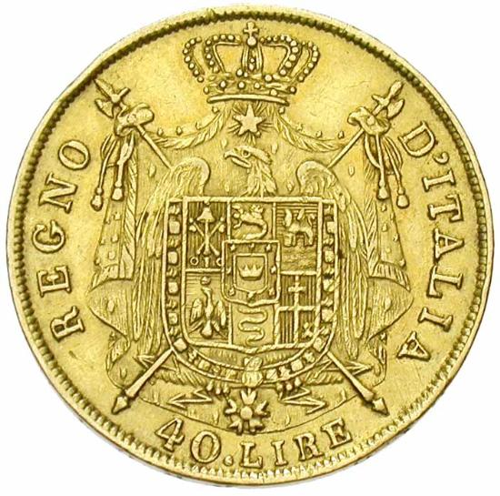 40 lire coin (1812) of the napoleonic "Regno d'Italia" (Kingdom of Italy).